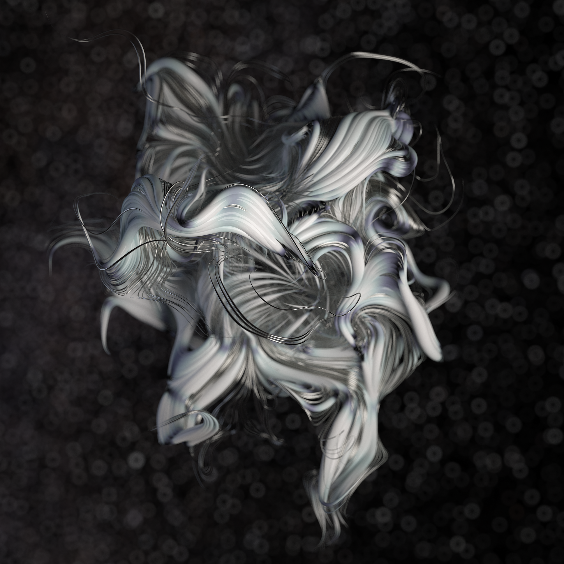 Composition is generated in Python. Nodes of bezier curves are following a vector field generated with the open simplex noise algorithm. Scene is ray-traced with PlotOptiX package.